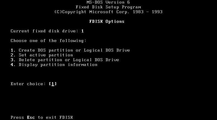 Screenshot of the MS-DOS 6.22 program FDISK